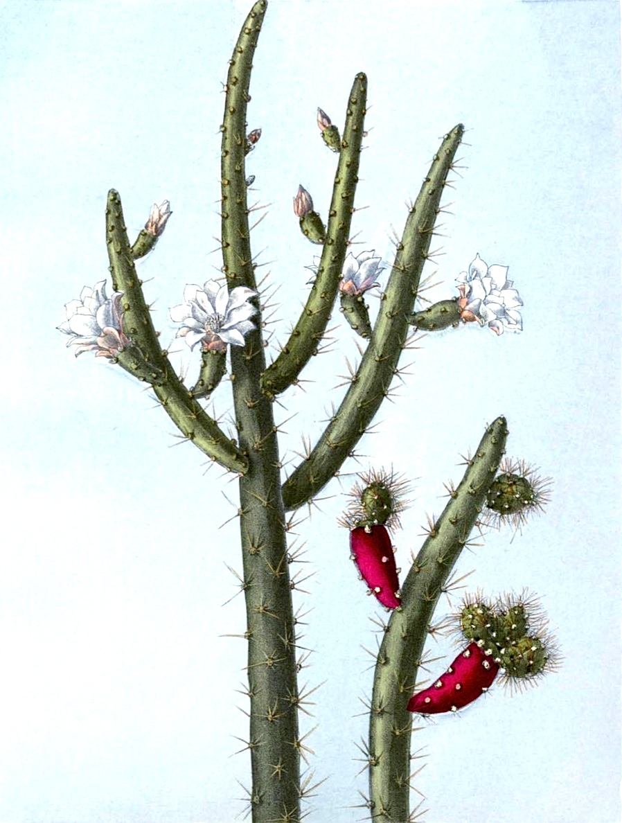 Opuntia salmiana